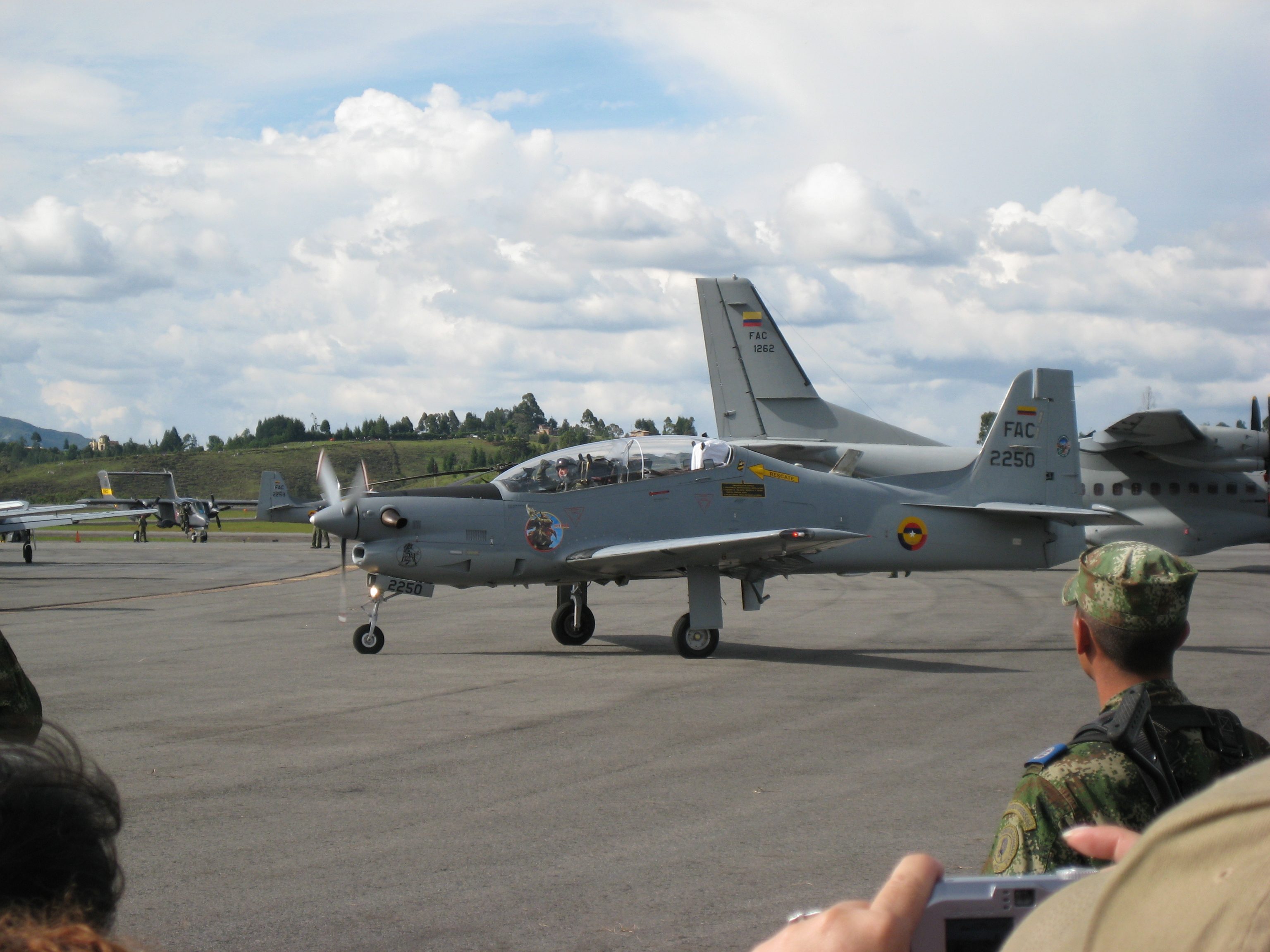 T-27 Tucano FAC2250